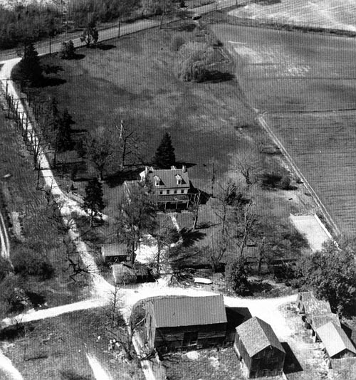 Paulsdale, birthplace and childhood home of women's suffrage activist Alice Paul.